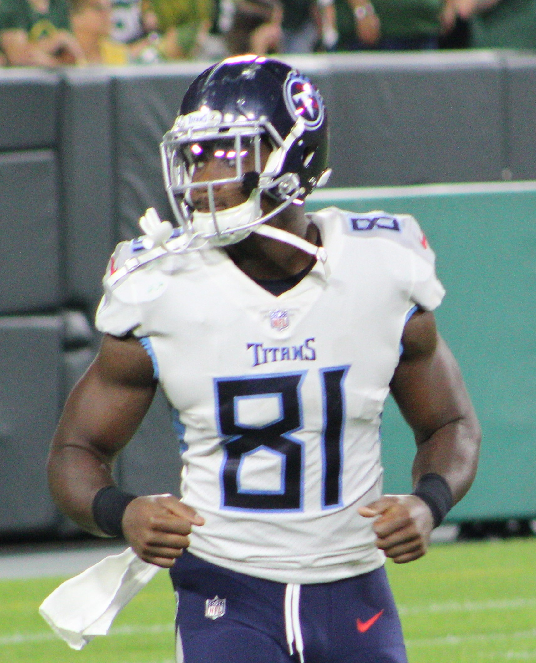 Jonnu Smith, Tennessee Titans at Green Bay Packers (Preseason), August 9, 2018